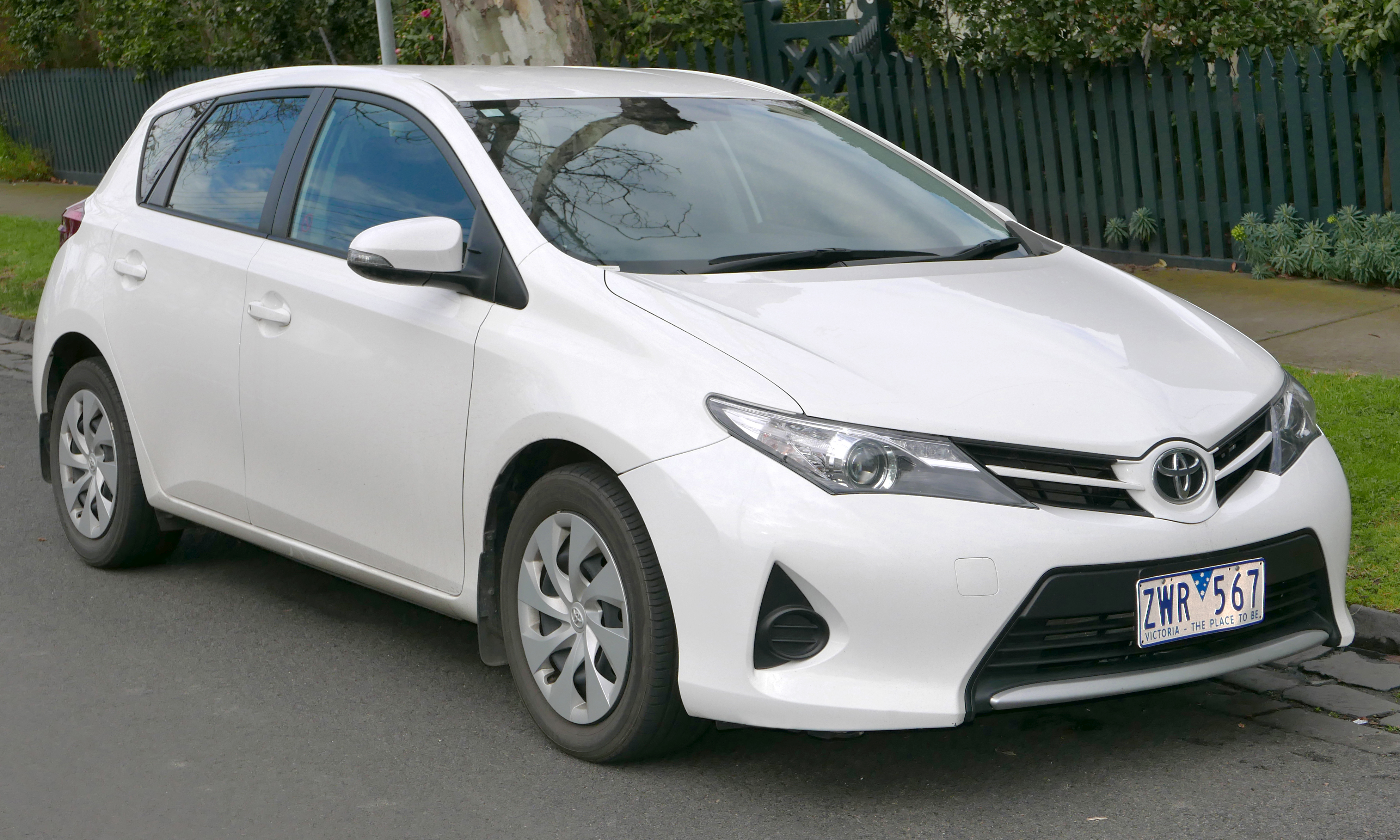 2013 Toyota Corolla (ZRE182R) Ascent hatchback. Photographed in Hawthorn, Victoria, Australia. Vehicle registration enquiry resultsJurisdictionVictoriaRegistrationZWR567Chassis codeJTNKU3JE30J026588Engine code2ZR1247218Compliance date2013-06Year of manufacture2013